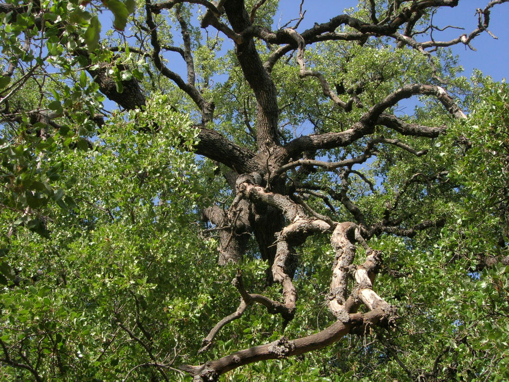 Old Oak tree (Quercus ithaburensis) in Horshat Tal, Hula Valley, north Israel